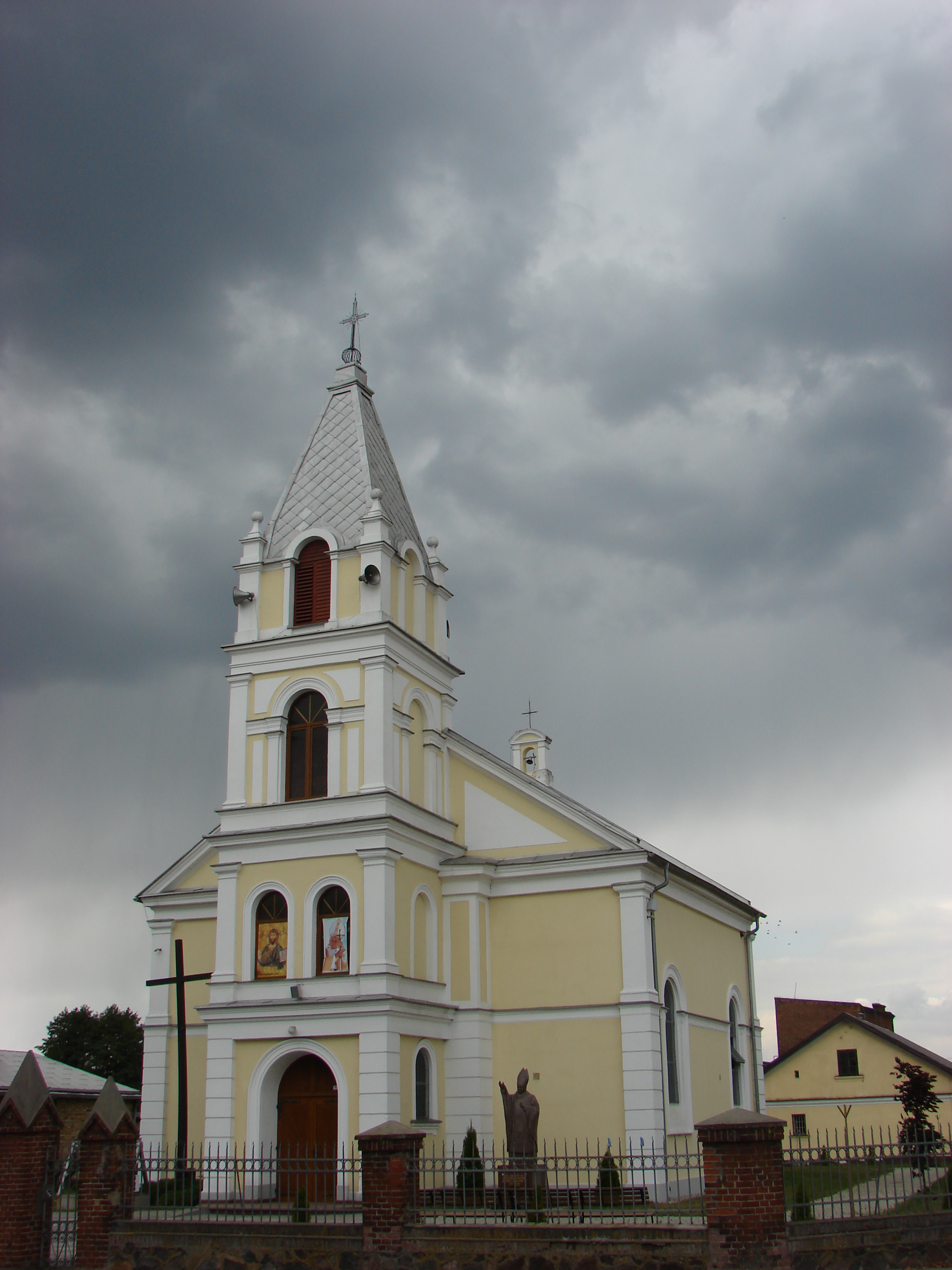 Babiak, Koło County. Parish church of the transfiguration.